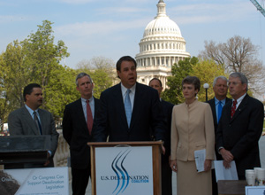 Hal Furman of The Furman Group Speaking, Rep. Richard Pombo, Rep. Jim Davis, Darryl Miller-West Basin, Rep. Heather Wilson, Woody Wodraska-PBS&J, Bernie Rhinerson-U.S. Desalination Coalition